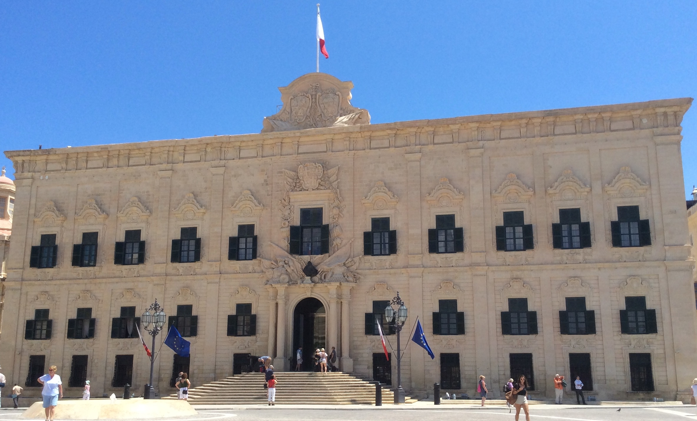 Auberge de Castille, Valletta